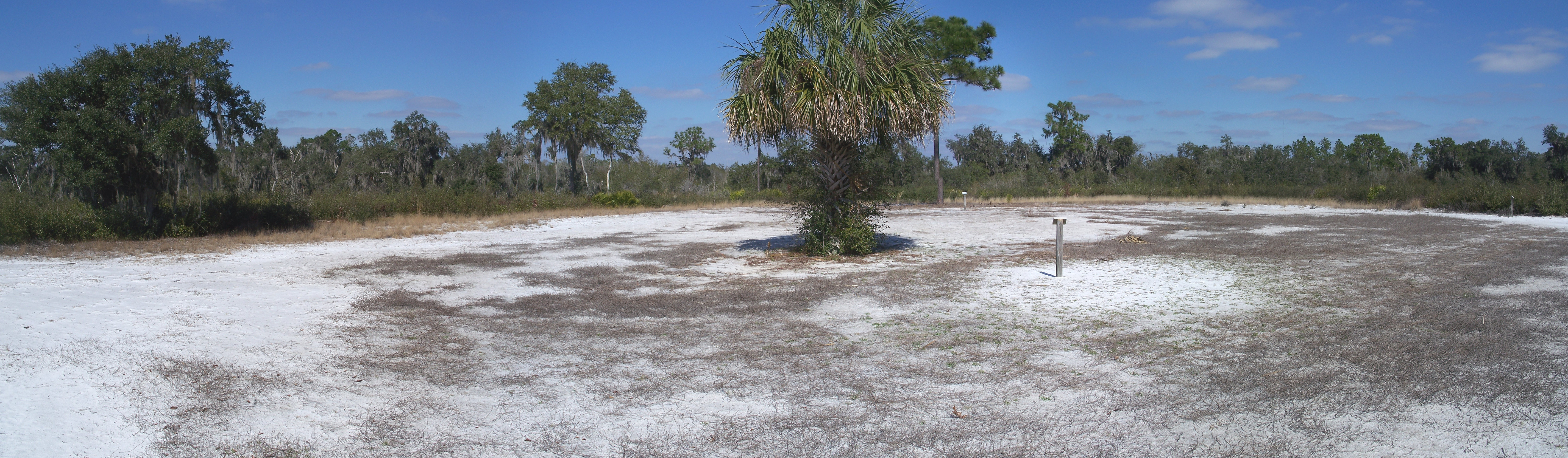 Paynes Creek Historic State Park: Fort Chokonikla site.